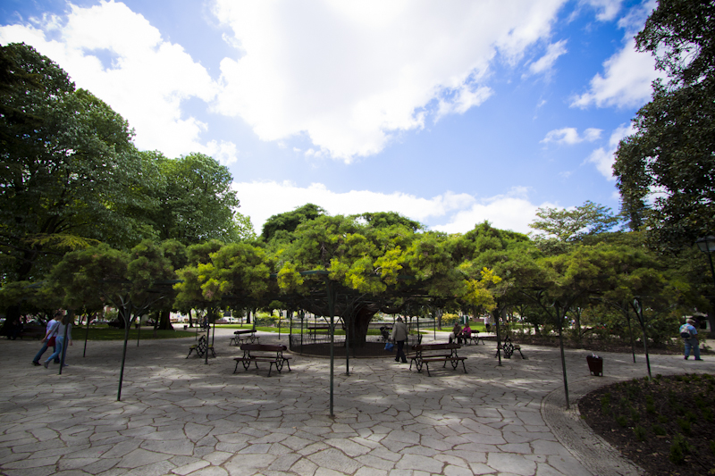 Ancient Portuguese Cypress at Príncipe Real Garden, located at Lisbon, it has almost 20 m of diameter